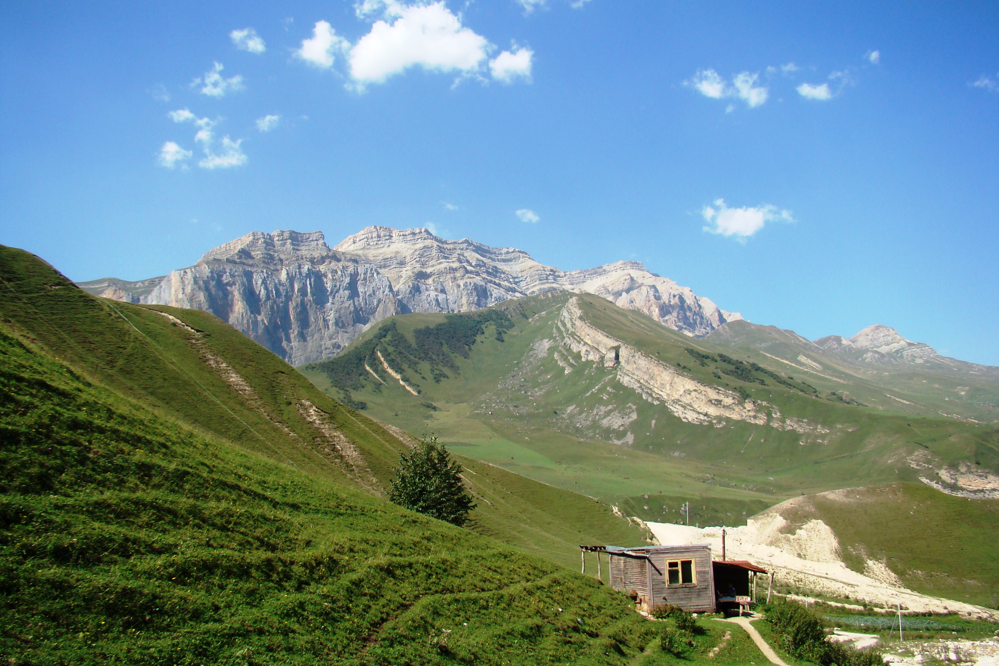 The view of Mount Shahdag situated in the north of Azerbaijan in 2013